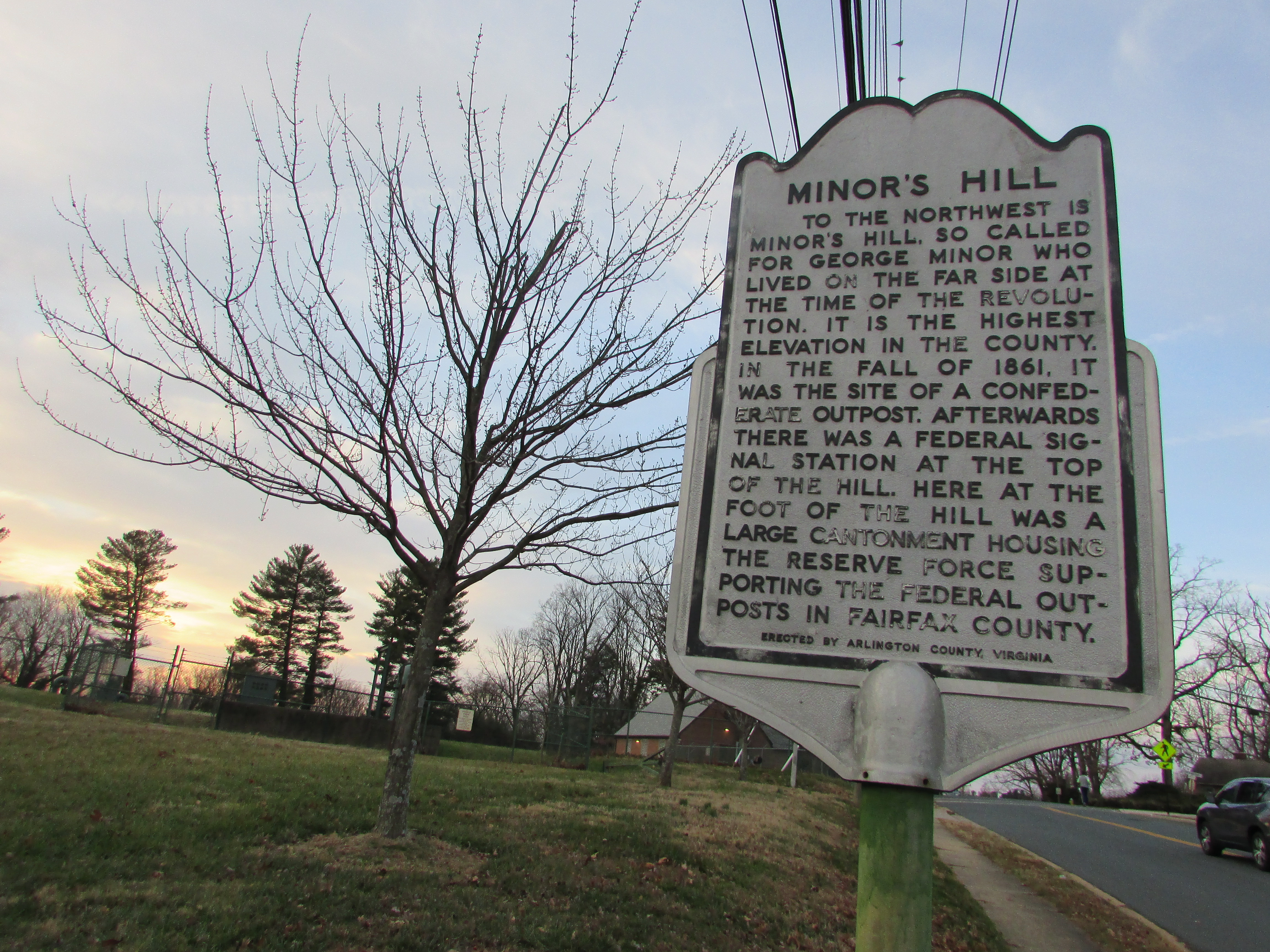 Historic marker placed by Arlington County authorities on Minor's Hill in Arlington County, Virginia.